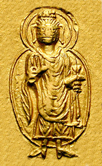 Kanishka Buddha detail